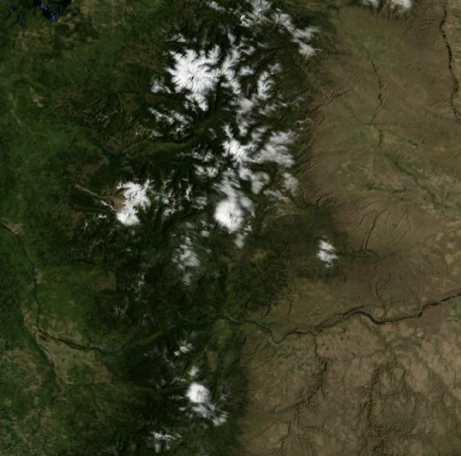 Large satellite view of Mount Adams (South Washington Cascades Range).